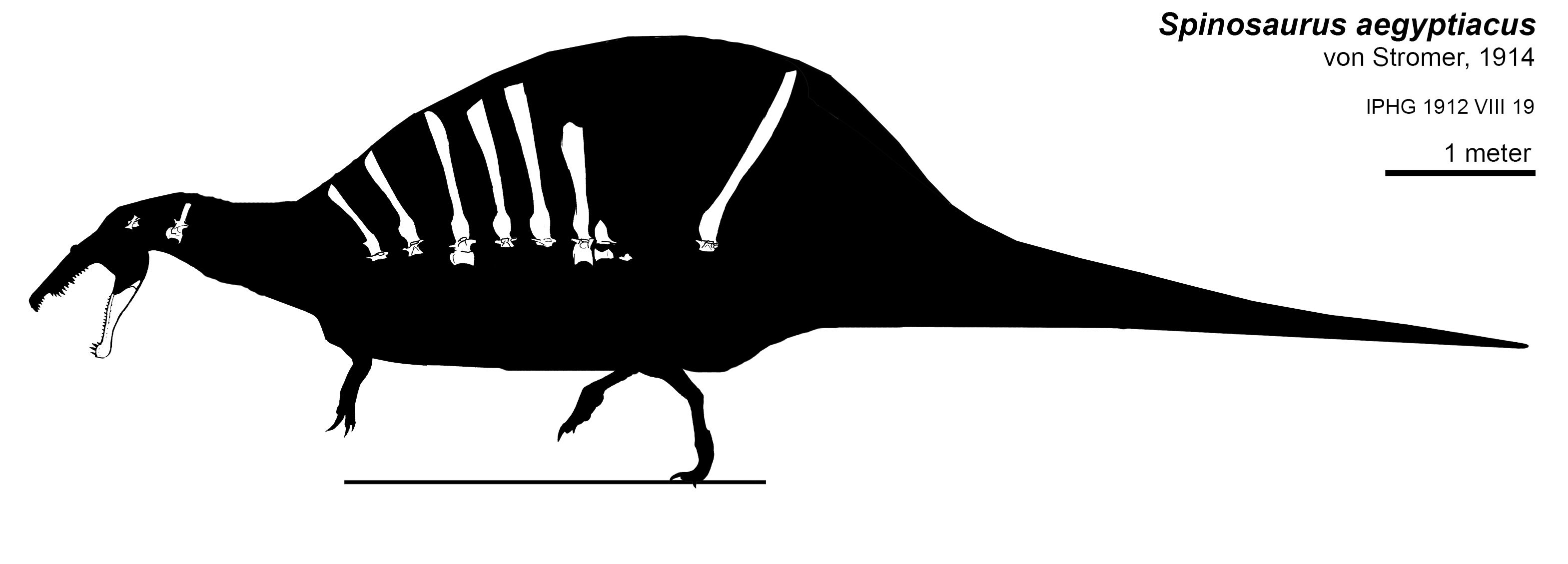 Skeletal reconstruction of Spinosaurus aegyptiacus.